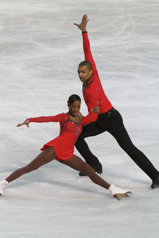 Vanessa James and Yannick Bonheur at the 2010 European Figure Skating Championships.